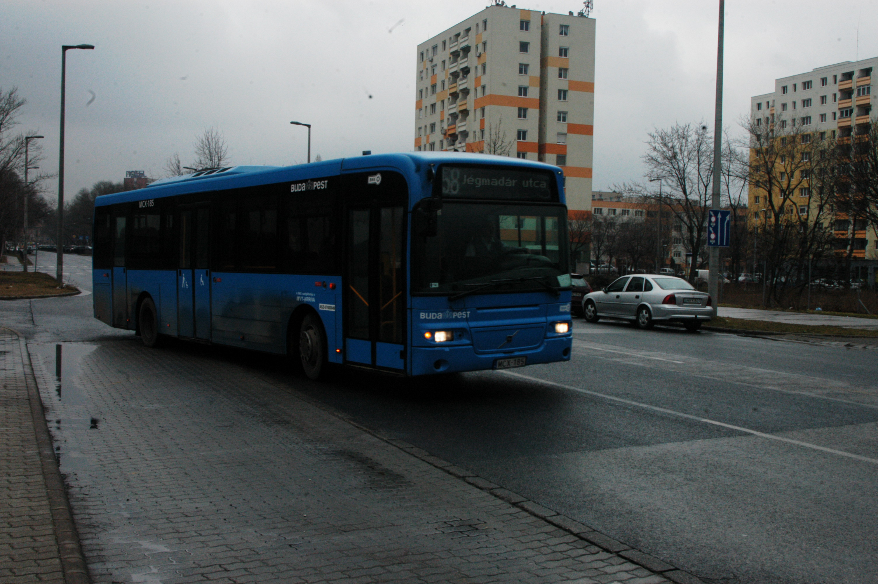 Volvo-Aabenraa 8500 LE bus (reg. MCX-185, ex. Copenhagen ST 97 855) on the line number 58 (Budapest).